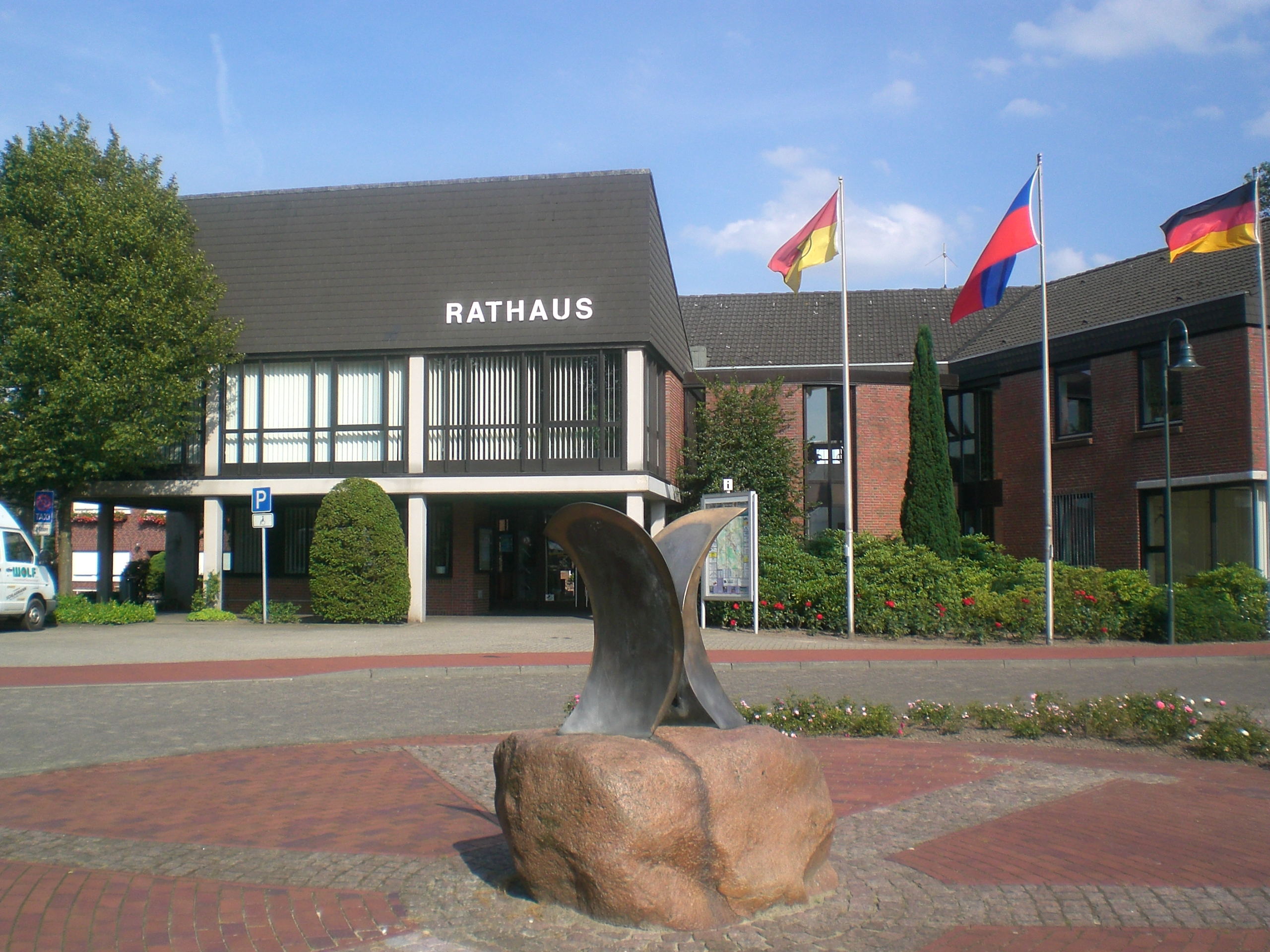 The town hall of Holdorf, Lower Saxony, Germany